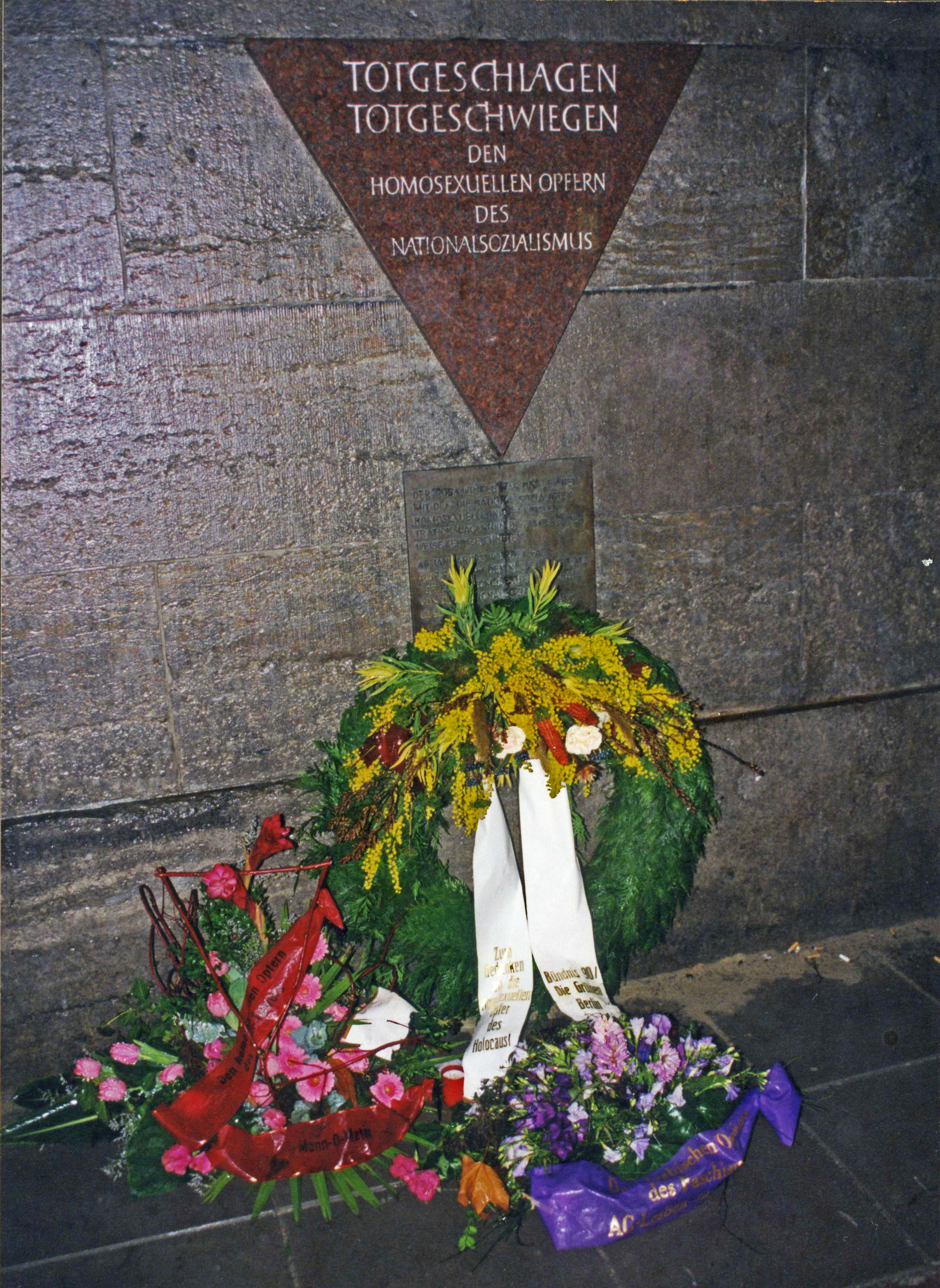 Memorial plaque for homosexual victims of Nazi persecution at Nollendorfplatz, Berlin. Inscription: "TOTGESCHLAGEN TOTGESCHWIEGEN DEN HOMOSEXUELLEN OPFERN DES NATIONALSOZIALISMUS" Text of the explanatory plaque: "Der »rosa Winkel« war das Zeichen, mit dem die Nationalsozialisten Homosexuelle in den Konzentrationslagern in diffamierender Weise kennzeichneten. Ab Januar 1933 wurden fast alle rund um den Nollendorfplatz verteilten homosexuellen Lokale von den Nationalsozialisten geschlossen oder zur Anlegung von »rosa Listen« (Homosexuellen-Karteien) durch Razzien missbraucht."